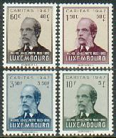 Semi-postal series of Luxembourg, with an inscription "Caritas" ("Charity"). Michel Lentz, poet and composer. Issued on: 1947-12-04. Expiry date: 1948-12-31. Comb 11½. Printing: Photogravure. Face values: 60+40 c., 1.50+0.50 fr., 3.50+3.50 fr., 10+5 fr. See more details at .